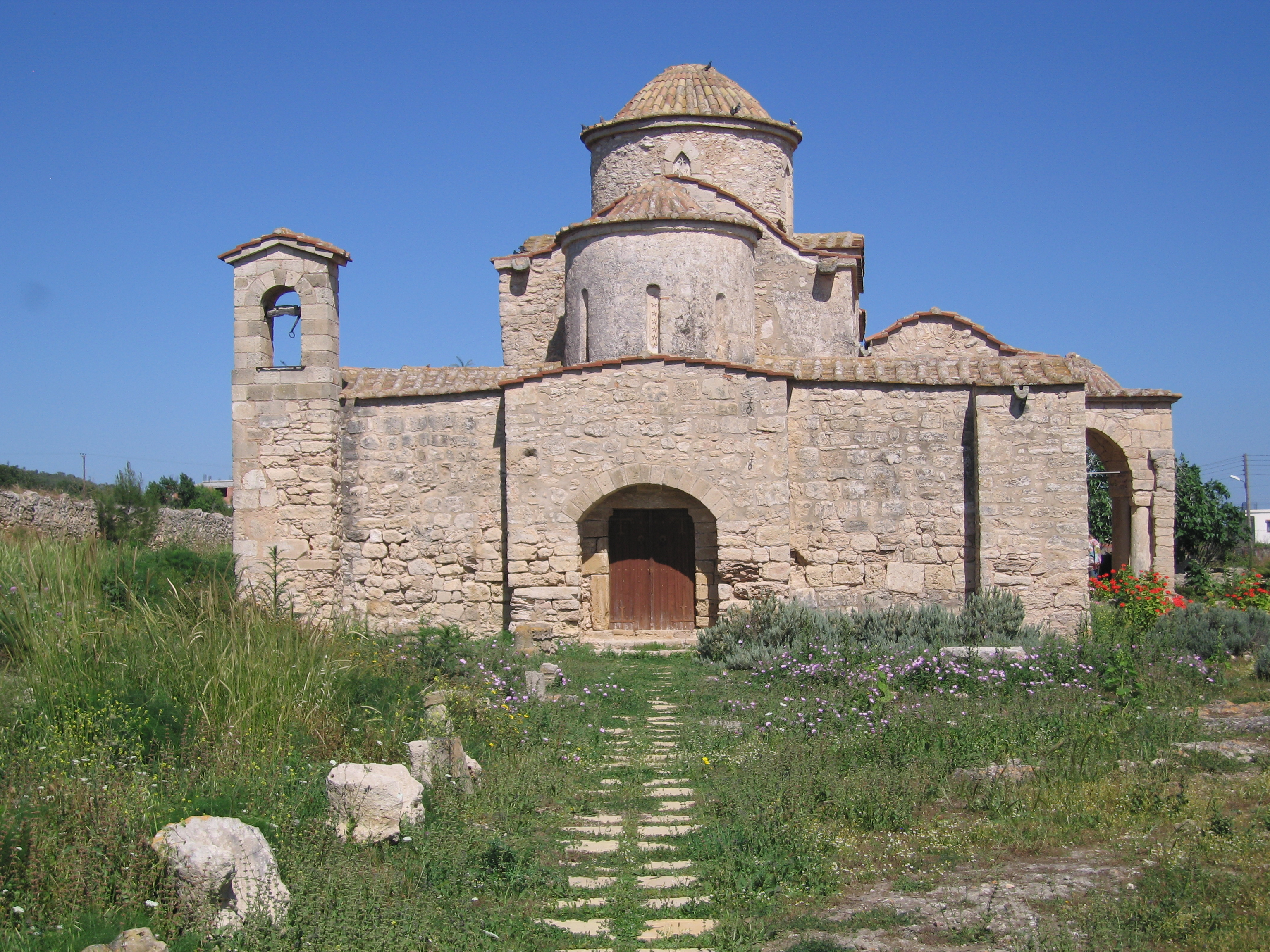 Panagia Kanakaria church in Lythrangomi (Boltaşlı), Karpass Peninsula, Northern Cyprus